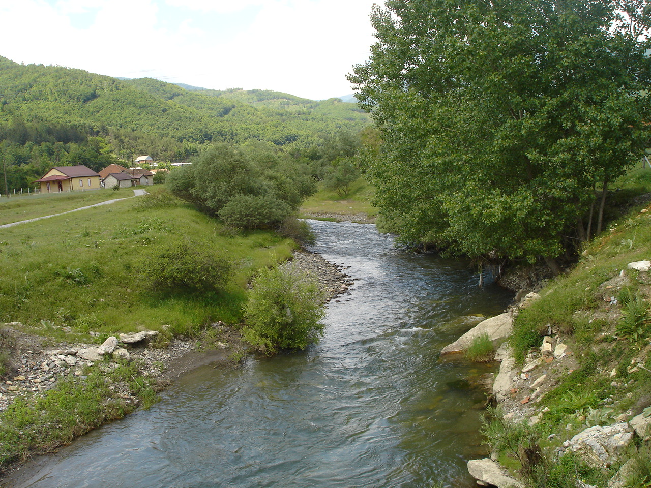 Sateska River, Macedonia